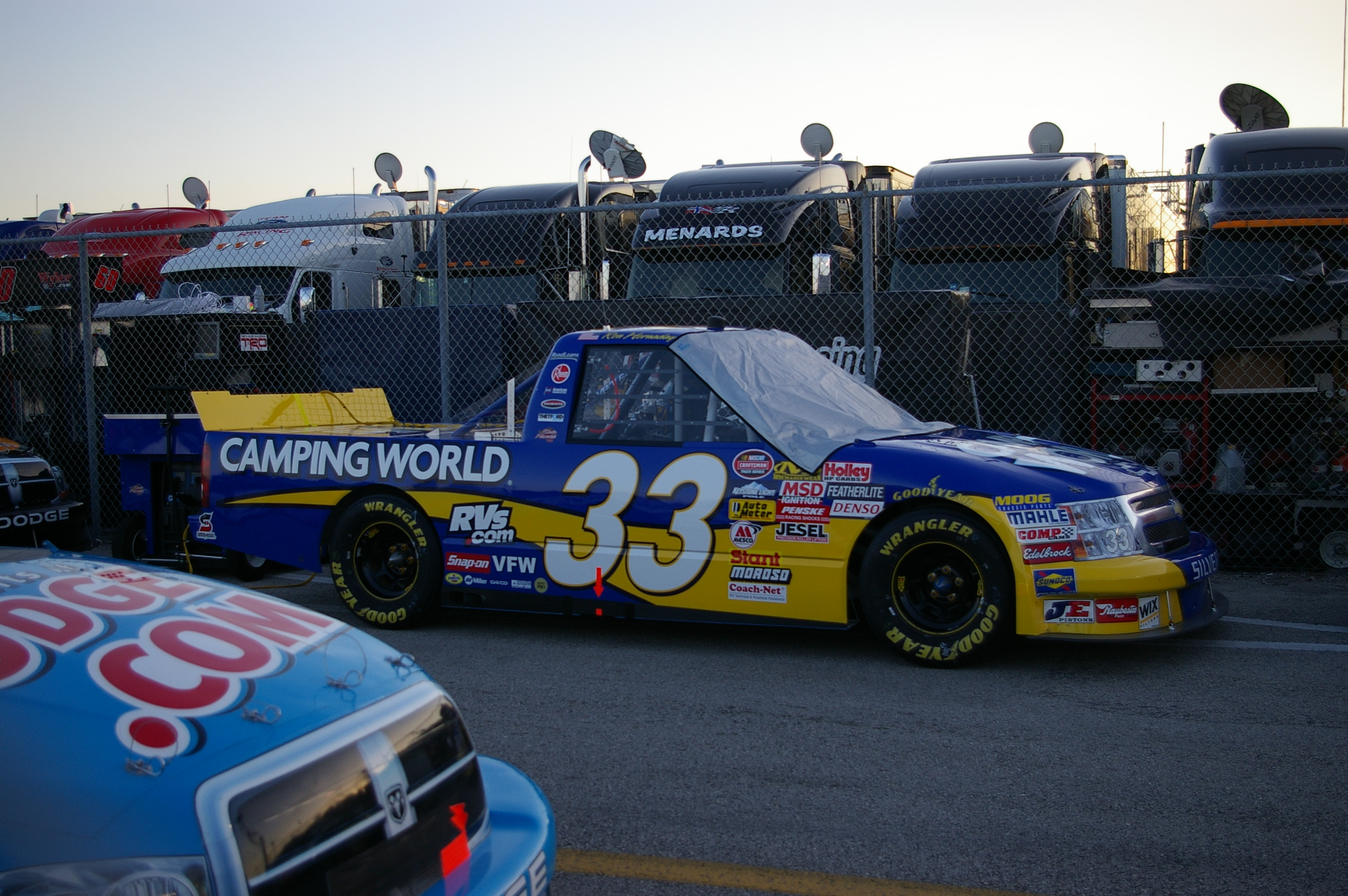 Ron Hornaday's truck prior to qualifying